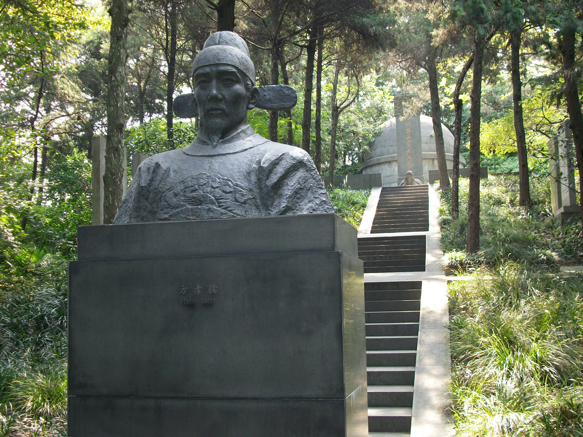 The tomb of Fang Xiaoru.